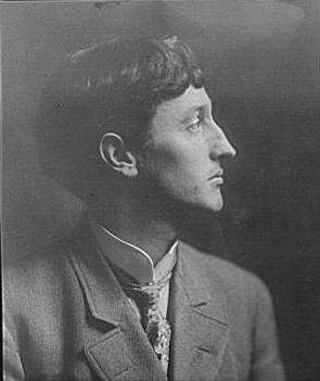 Title Portrait photograph of George Sterling Contributor Names Genthe, Arnold, 1869-1942, photographer Created / Published between 1906 and 1942; from a negative taken between 1906 and 1914. Subject Headings - Sterling, George,--1869-1926. Format Headings Lantern slides. Portrait photographs. Notes - Title devised. - Purchase; Genthe Estate; 1942 or 1943. - ID: LC-G432-0653; between 1906 and 1914 Medium 1 slide : lantern ; 4 x 5 in. or smaller. Call Number/Physical Location LC-G4085- 0409 [P&P]